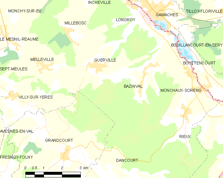 Map of French municipality Guerville